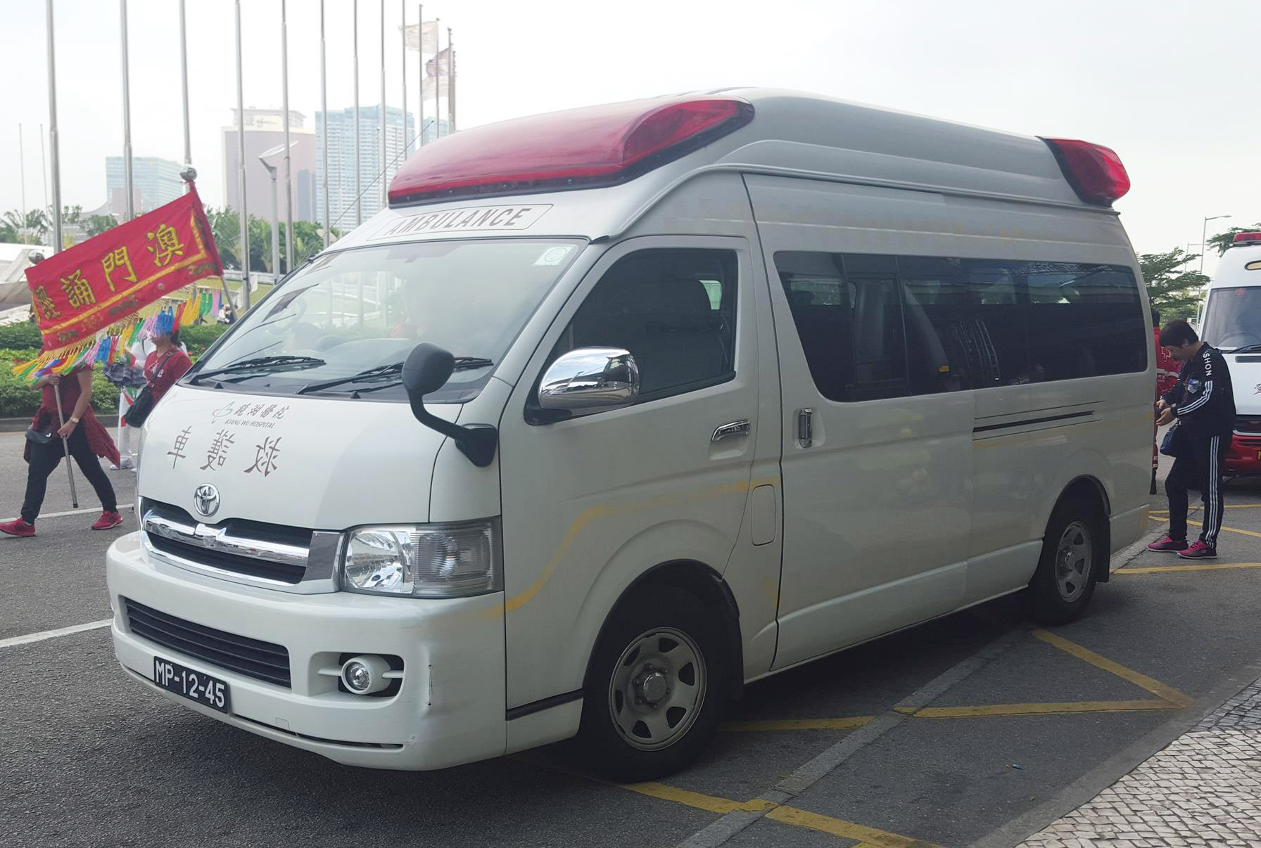 Ambulance of Kiang Wu Hospital